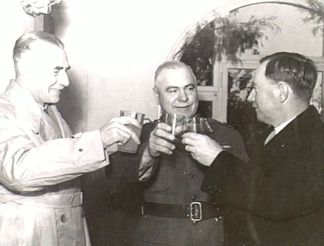 SEA OF GALILEE, PALESTINE. 1941-01-01. THE CHIEF OF THE AUSTRALIAN ARMY GENERAL STAFF LIEUTENANT GENERAL SIR VERNON STURDEE (ON THE LEFT), THE GENERAL OFFICER COMMANDING AIF MIDDLE EAST SIR THOMAS BLAMEY AND THE AUSTRALIAN MINISTER FOR THE ARMY MR PERCY SPENDER TOAST THE NEW YEAR. GENERAL STURDEE AND MR SPENDER WERE ON AN INSPECTION TOUR OF THE MIDDLE EAST. (NEGATIVE BY G. SILK)